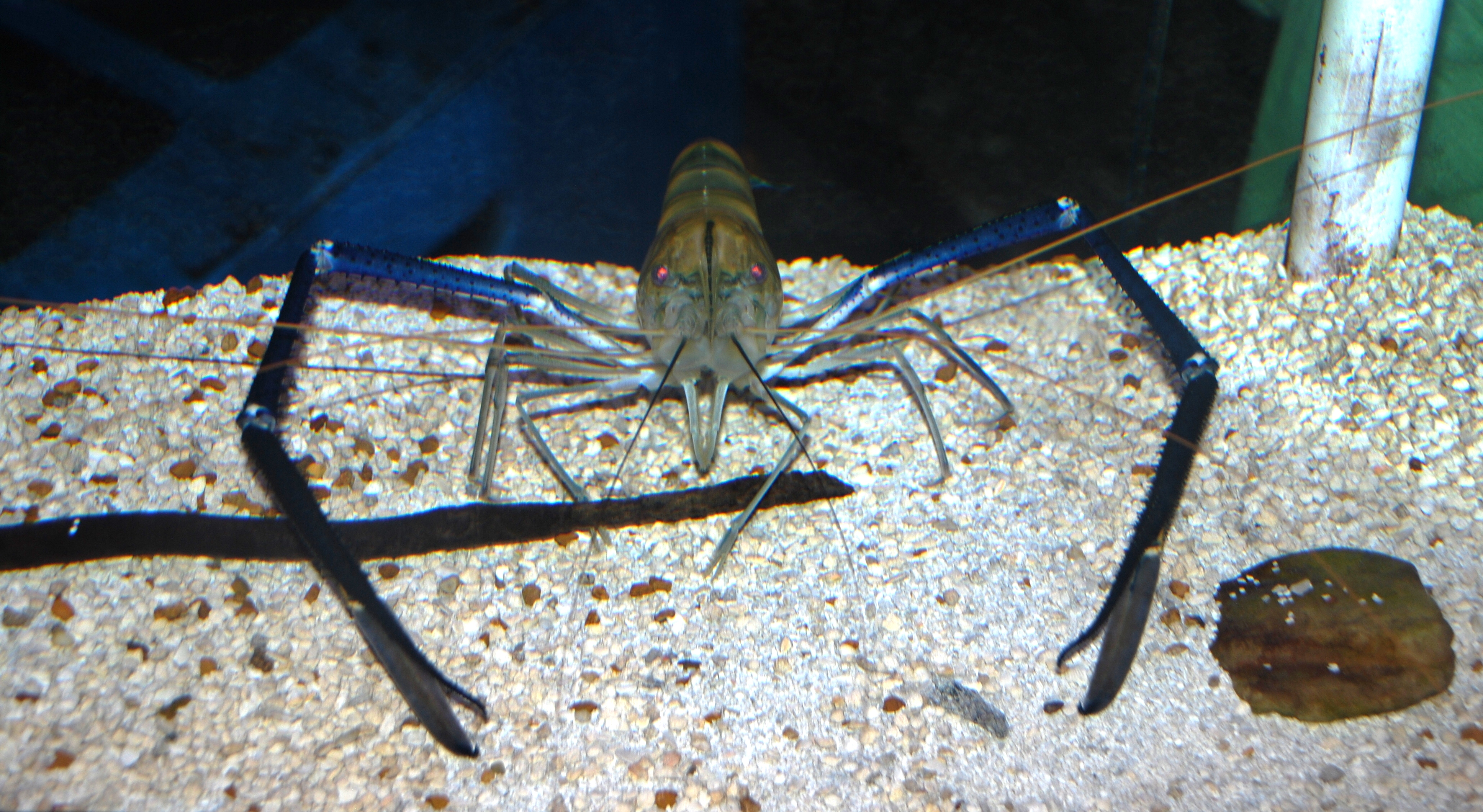 Invertebrates in Smithsonian National Zoological Park: Macrobrachium rosenbergii Giant freshwater prawn